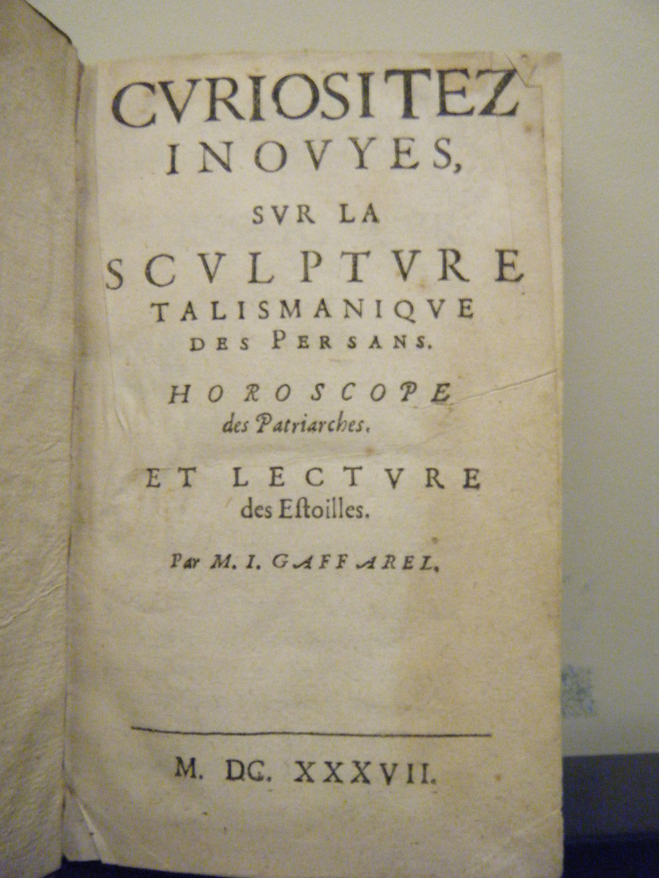 Inside cover of the book Curiositez inouyes sur la sculpture talismanique des Persans, horoscope des Patriarches et lecture des estoiles by Jacques Gaffarel